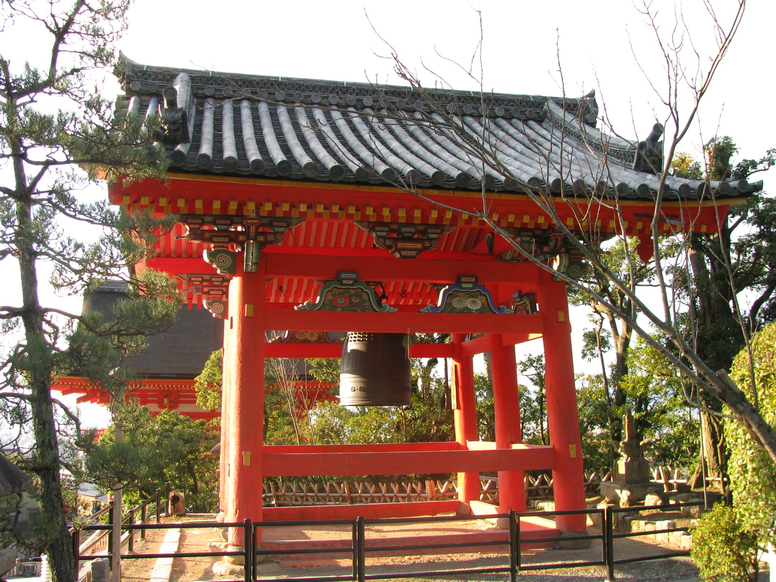 "Shoro" (Bell Tower) in Kiyomizu-dera Temple, eastern Kyoto, Japan